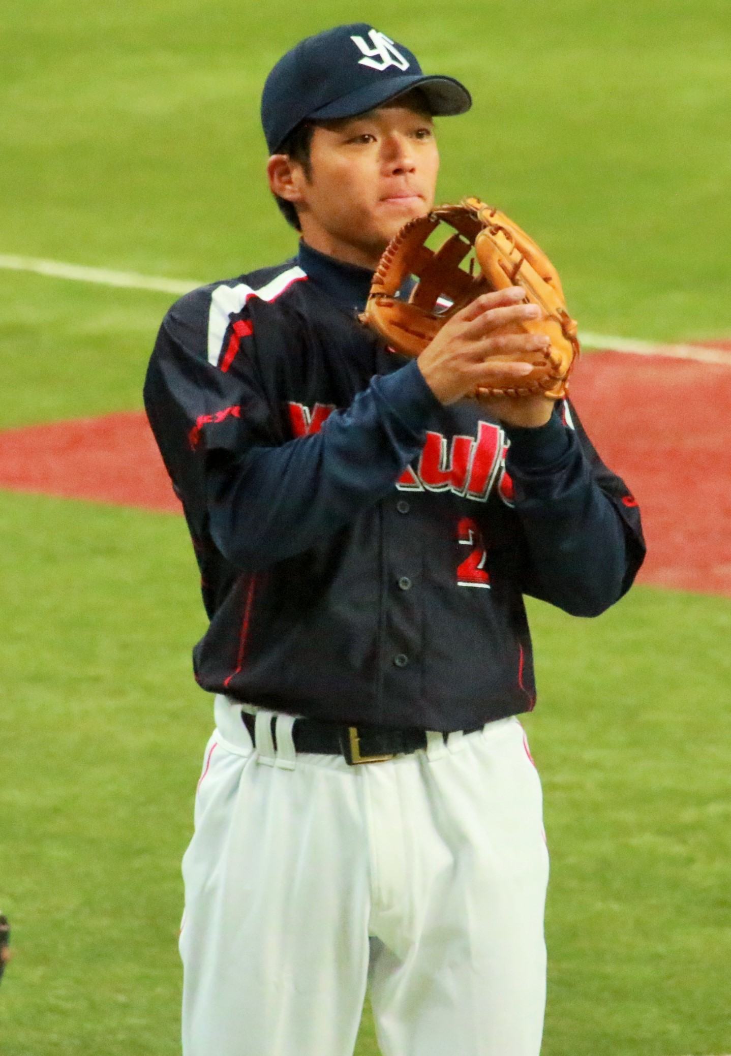 Keiji Obiki, infielder of the Tokyo Yakult Swallows, at Osaka Dome.